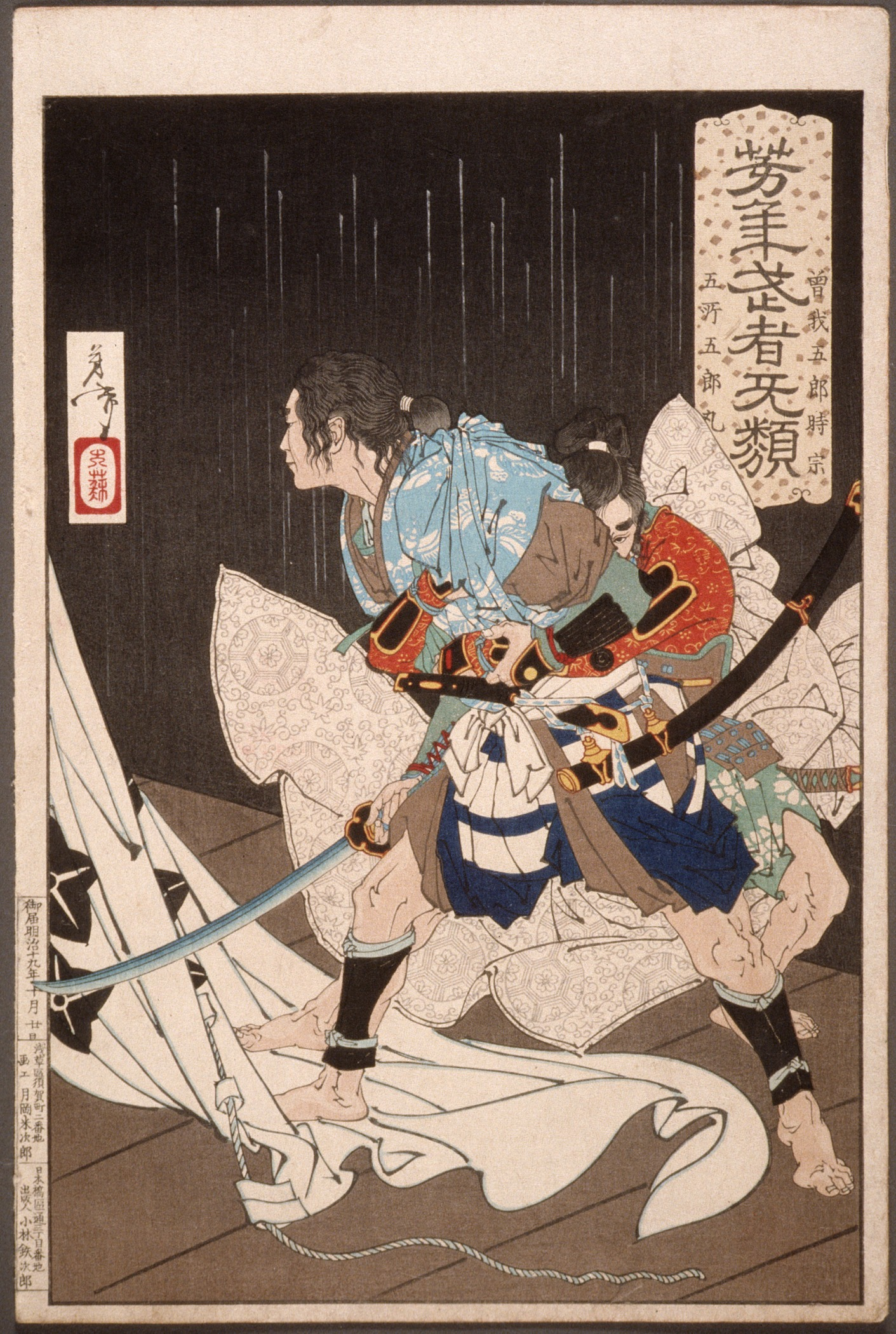 Japan, 1886, 10th month Series: Yoshitoshi's Warriors Trembling with Courage Prints; woodcuts Color woodblock print Herbert R. Cole Collection (M.84.31.88) Japanese Art 曽我兄弟の仇討ちで知られた曽我五郎は、仇討ちを成功させたのち、源頼朝の寝間を狙ったが、頼朝の小舎人である五所五郎丸に捕まる。時宗の背後から五郎丸が腰を掴んでいる場面。 Tokimune is famous for "Soga brother's Revenge in 1193." Goromaru was Kodoneri, minor officers who were engaged in miscellaneous affairs for Shogun. After killing his enemy, Tokimune also tried to kill Minamoto no Yoritomo, his enemy's boss, and stole up to Yoritomo's bedroom, but he was held back by Goromaru. Tokimune was executed at 20.